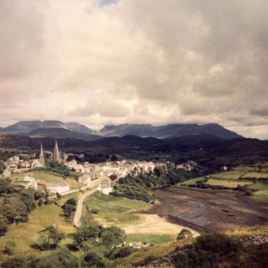 1965Clifton (Clochan) Connemara Ireland